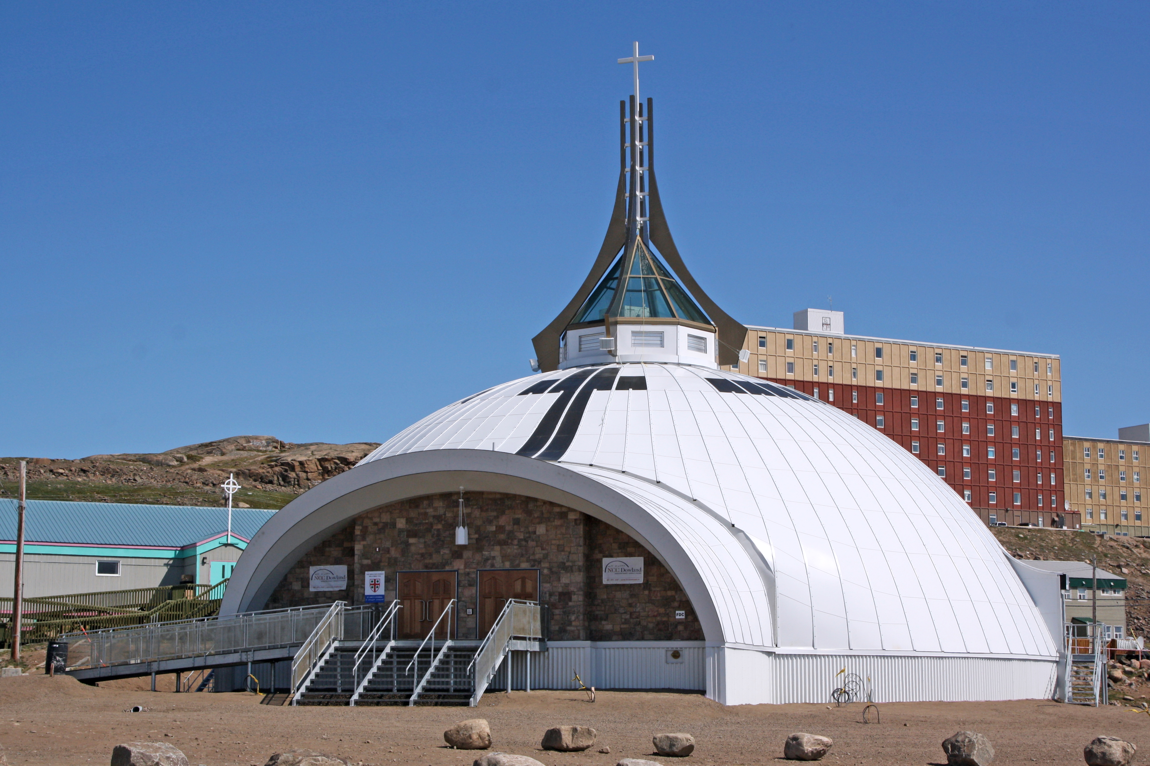 Iqaluit St. Jude's Anglican Cathedral in 2012. St. Jude's Cathedral (formally the Cathedral of St. Simon and St. Jude) is the Anglican cathedral in Iqaluit, Nunavut, Canada. First designed by Ronald Thom in 1970 and built in 1972 by local volunteers, it was demolished in June 2006 following a fire. Construction of this new cathedral was completed in 2012.